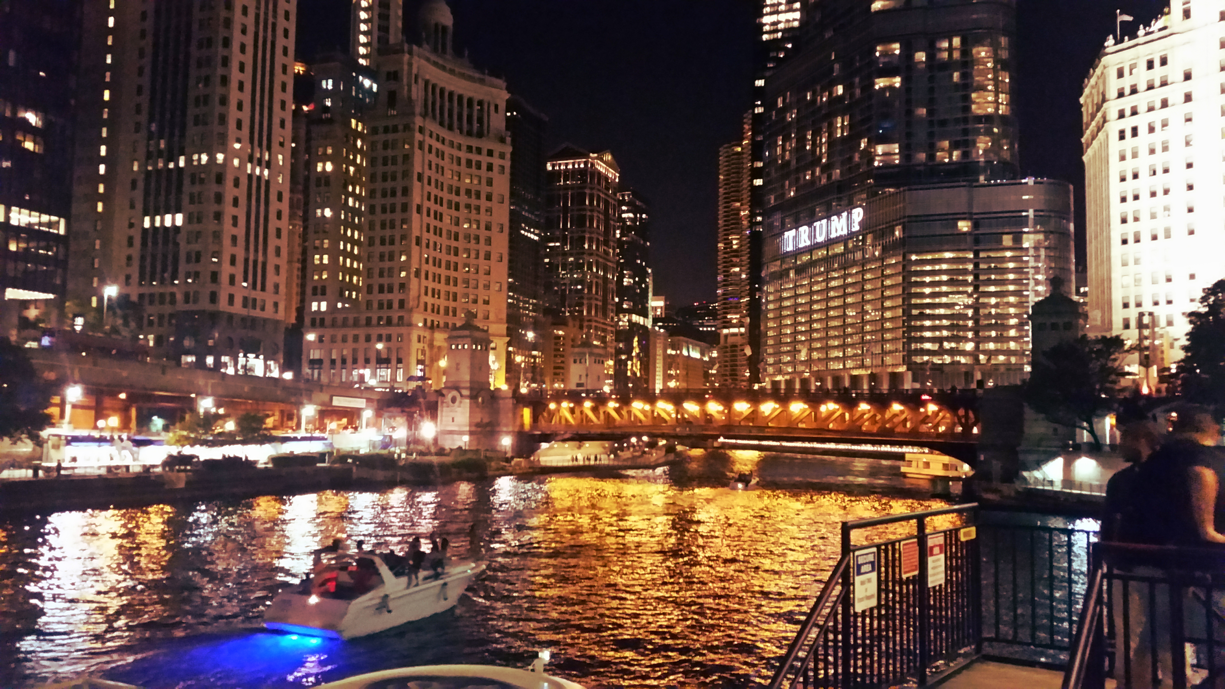 Chicago River 5